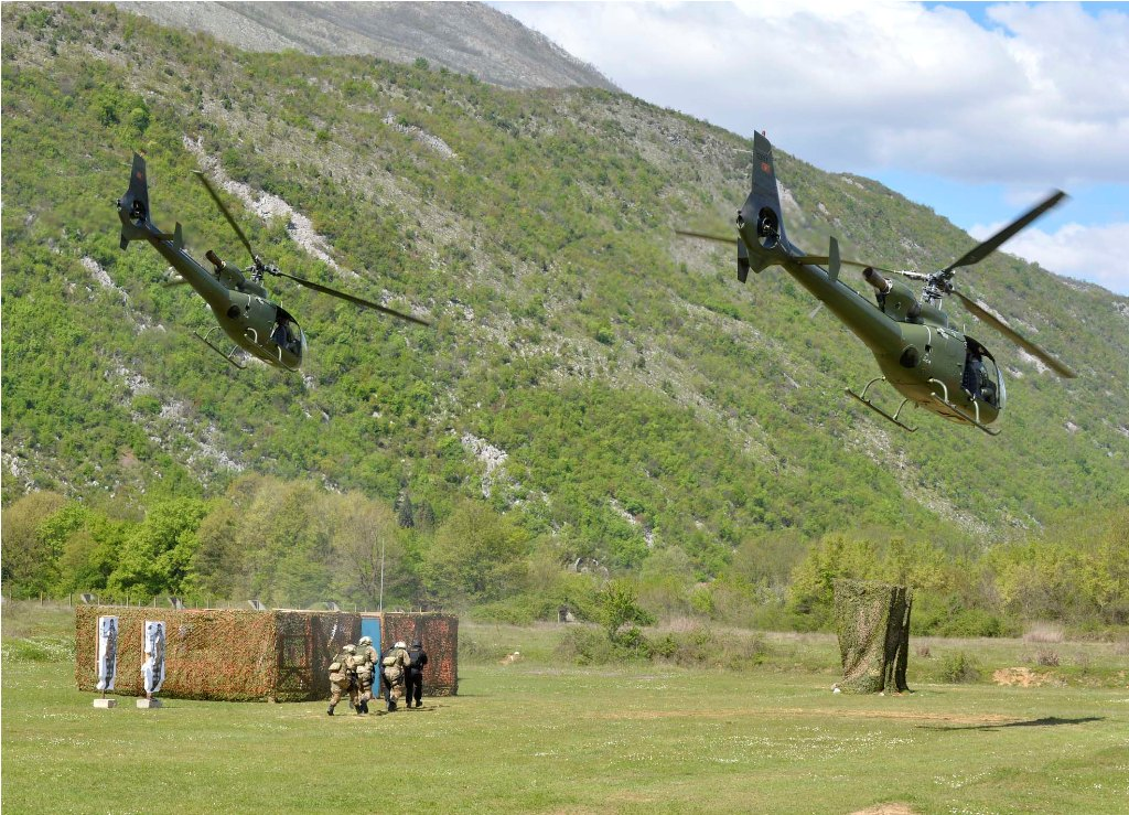 Military Montenegro 22